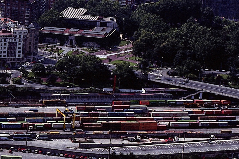 Bilbao-Parke station in Abandoibarra (2002)